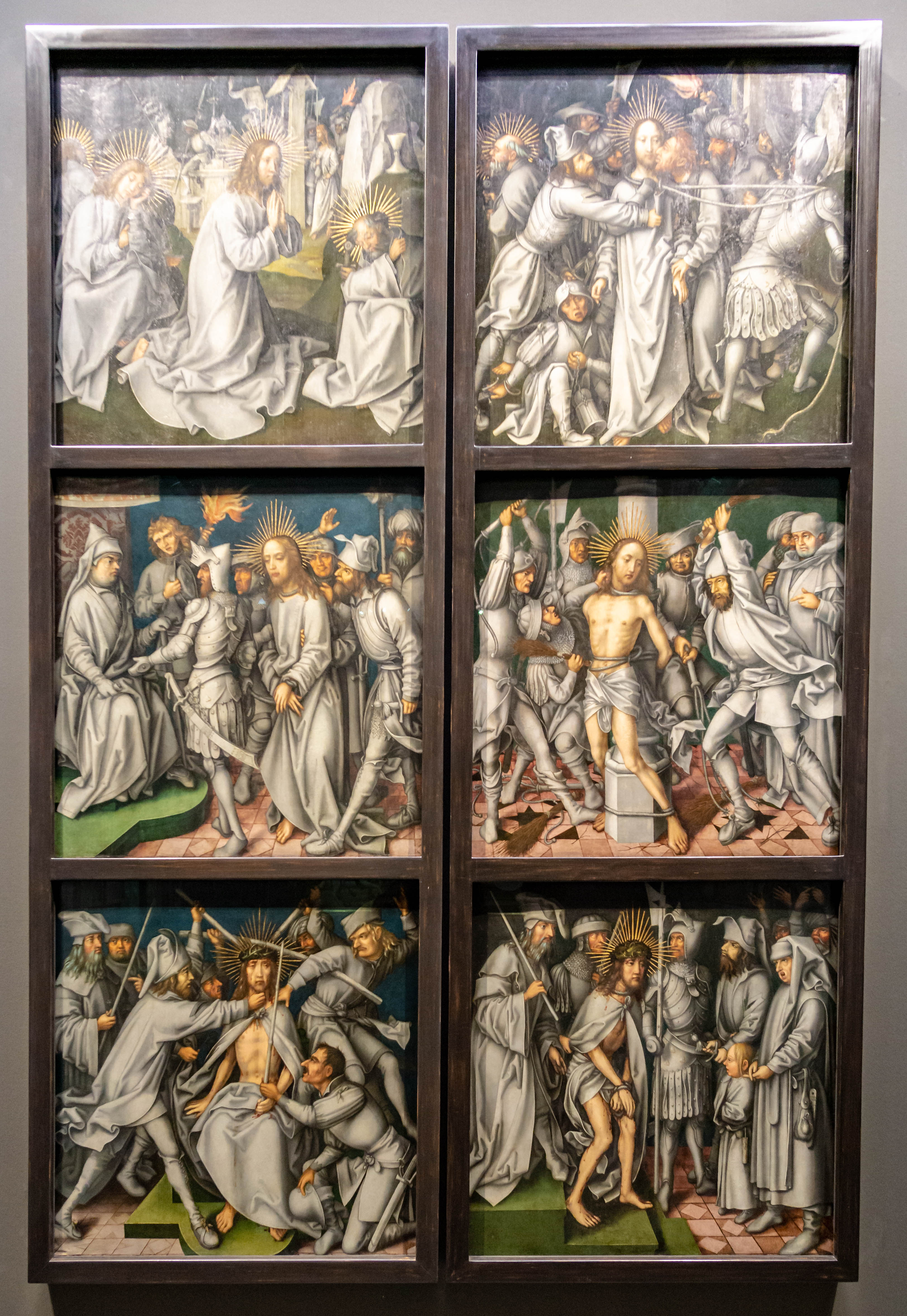 Grey Passion Agony in the Garden - Arrest of Christ - Christ before Hannas - Flagellation of Christ - Christ Crowning with Thorns - Ecce Homo (Panels of the right and left exterior wings)